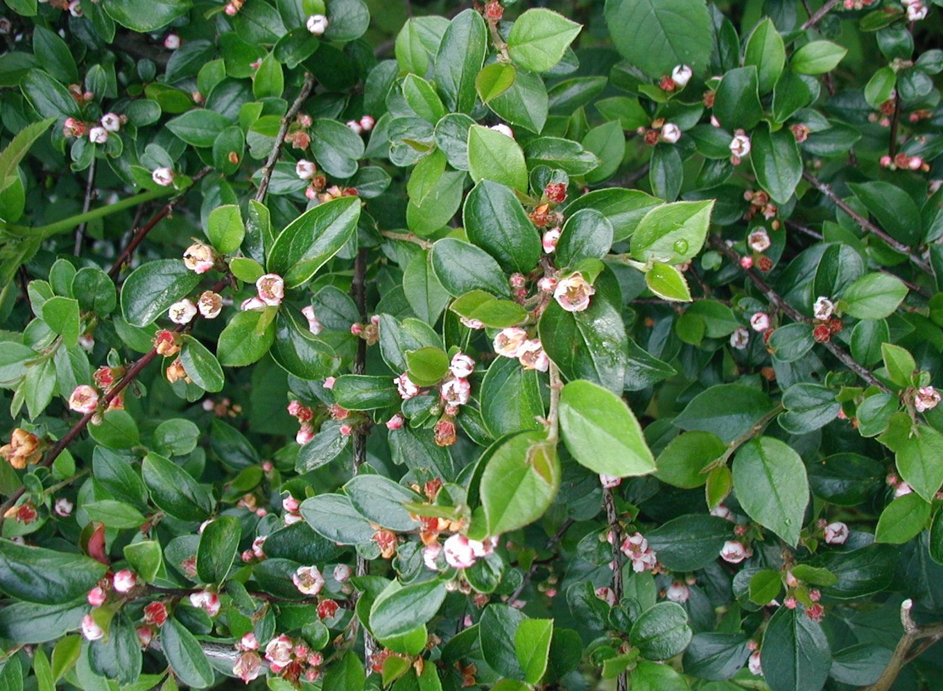 Cotoneaster divaricatus: Flowers and foliage